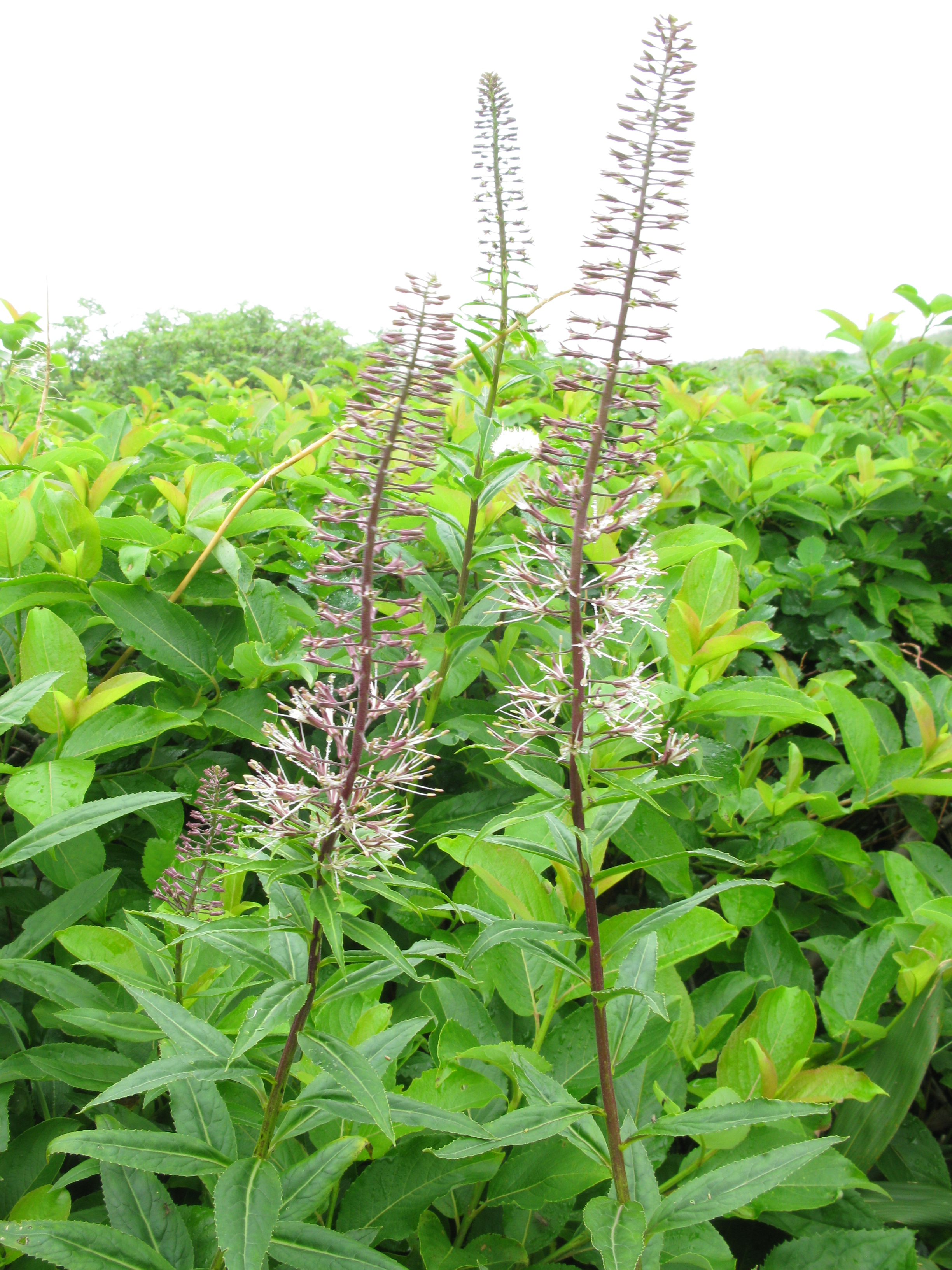 Macropodium pterospermum, Mount Gassan, Yamagata pref., Japan